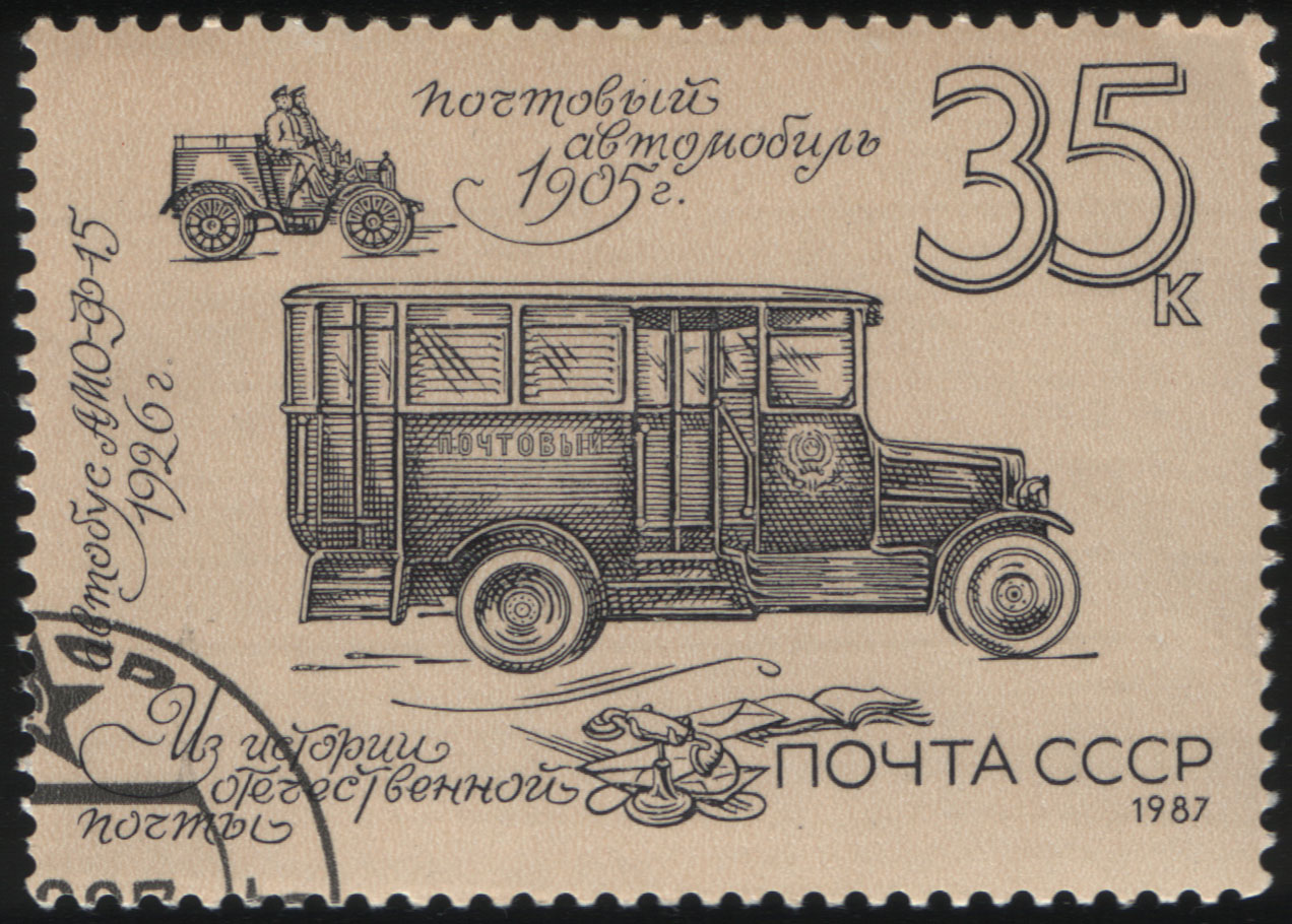 Stamp of USSR , History of domestic post. Postal car (1905), mail bus AMO-F-15 (1926), 1987